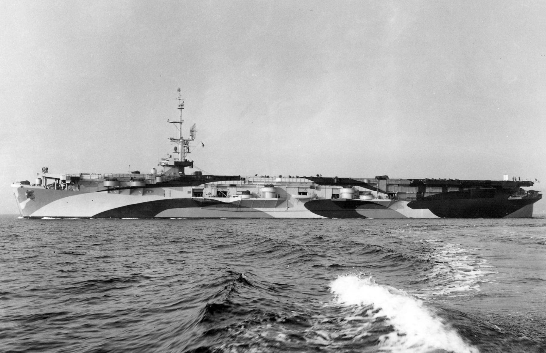 The U.S. Navy escort carrier USS Commencement Bay (CVE-105), circa 1944-1945. She wears Camouflage Measure 32 design 16A.